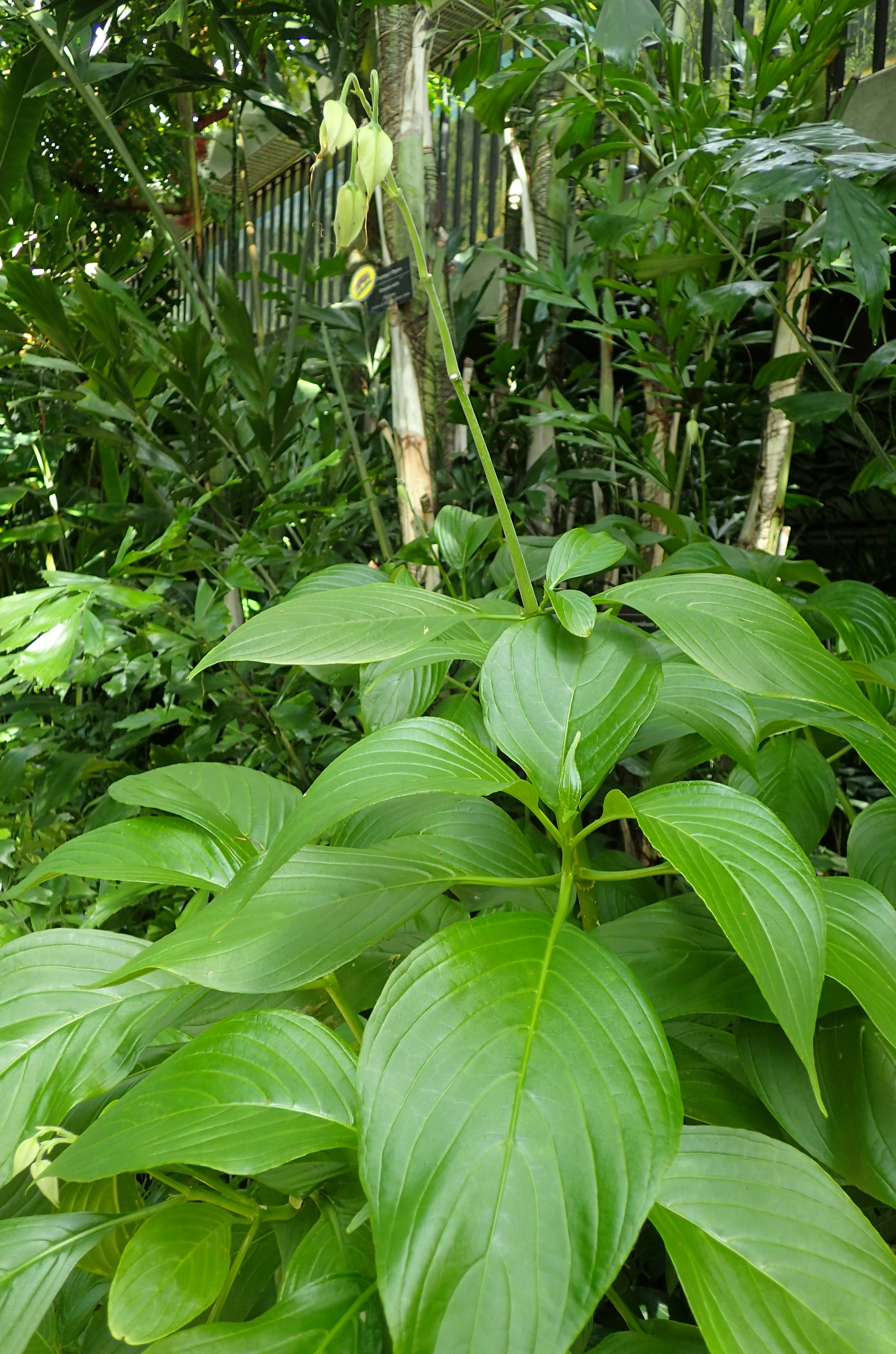 Louteridium panamensis in Boltz Conservatory, Madison, Wi